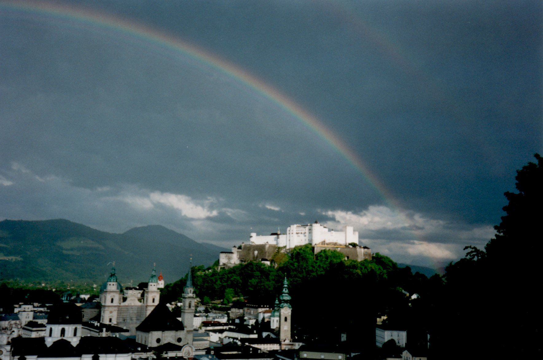 Hohensalzburg, a castle in Salzburg, Austria, in a storm with a rainbow. Taken from Naturfreundehaus. Scanned from a print in 2006.